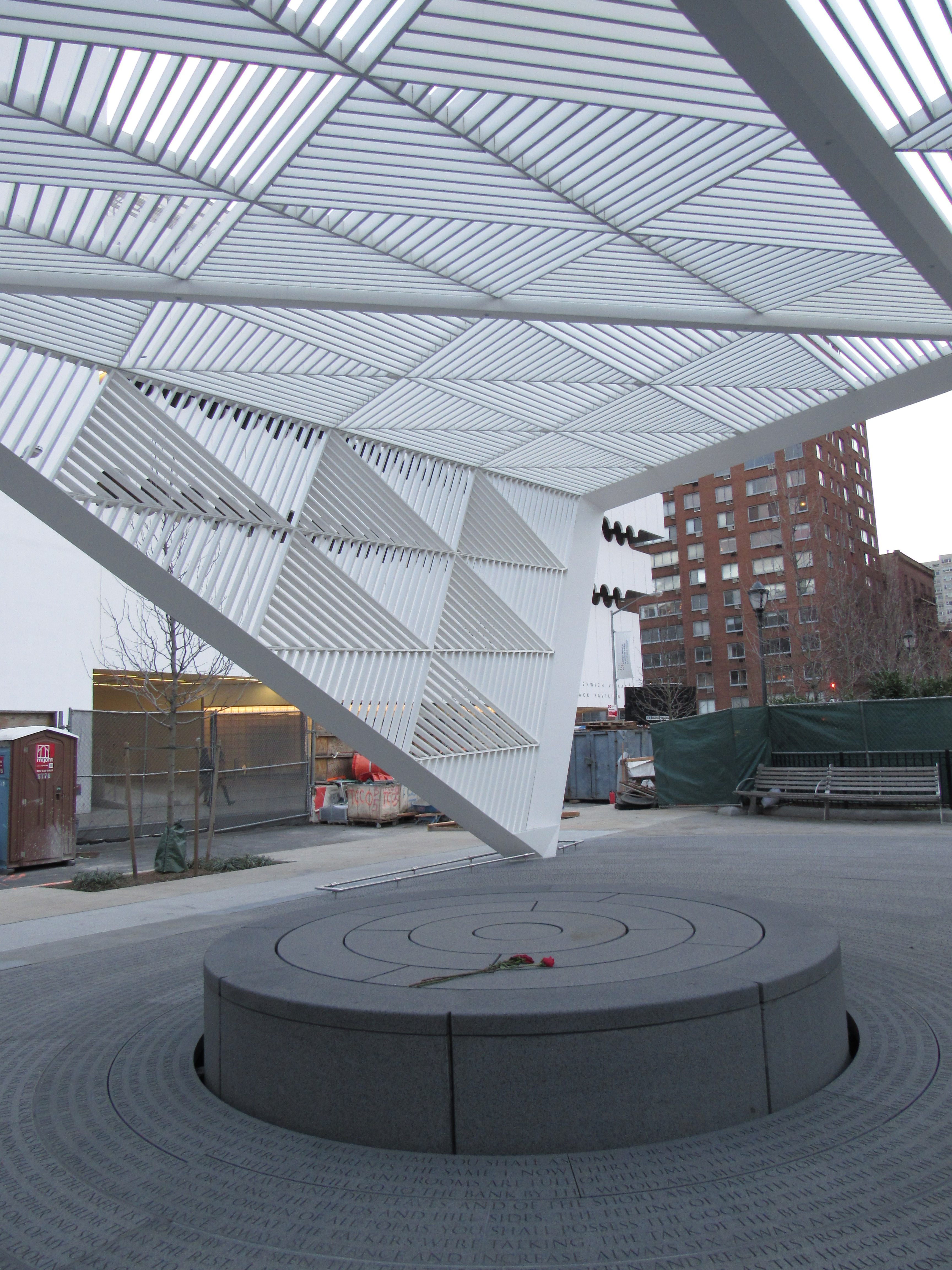 during the day - a family left a rose in the NYC Memorial and the dedication was left with a familiar touch of history.